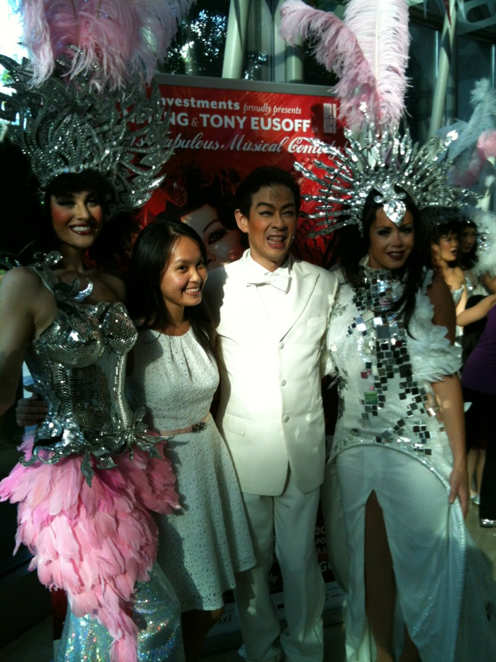 Singaporean actor Ivan Heng after a W!LD RICE performance of La Cage (an adaptation of La Cage aux Folles) at the Esplanade Theatre, Esplanade – Theatres on the Bay, Singapore.